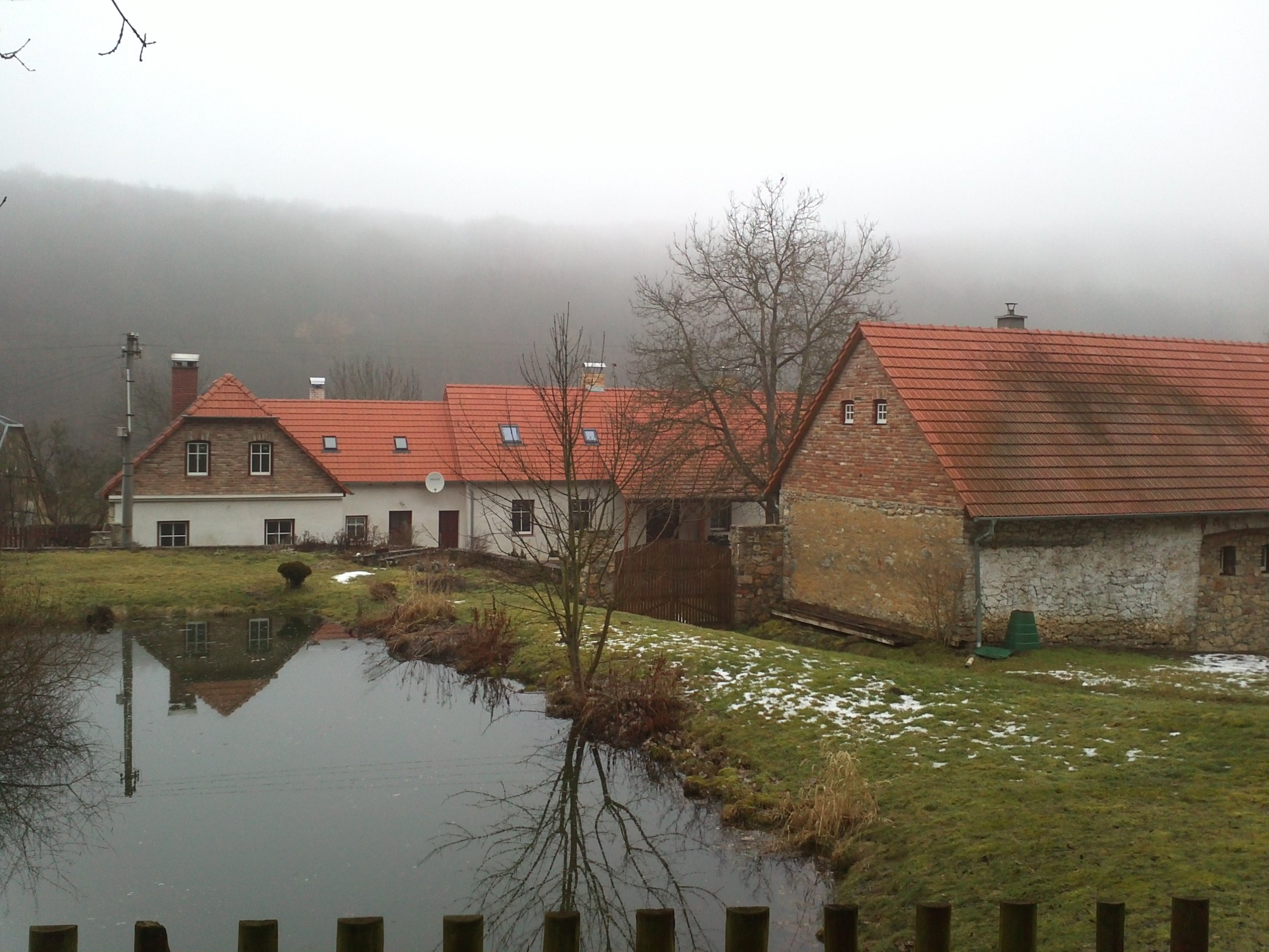 Pond near Koda Pond. Beroun District, Czech Republic.